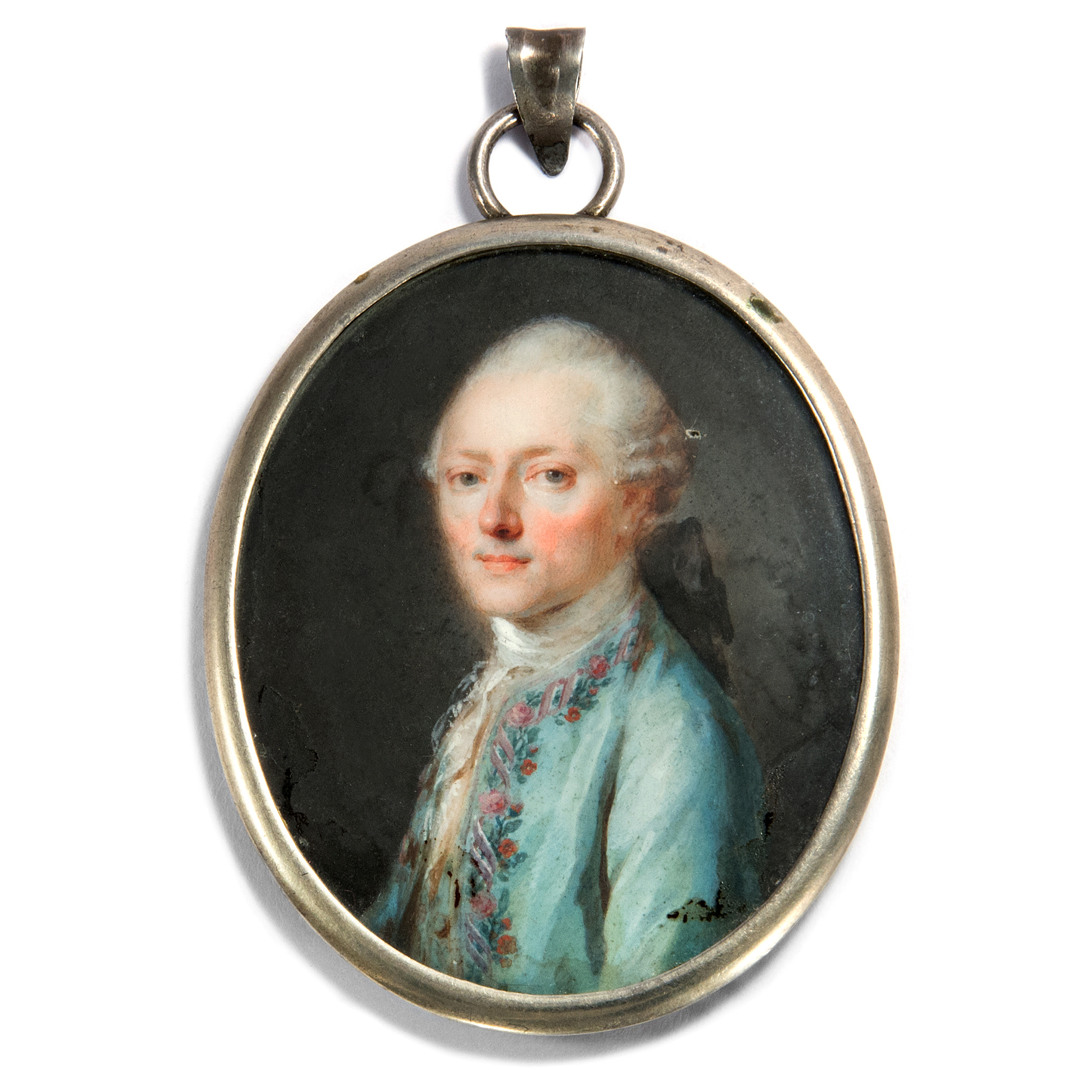 Pendant with a miniature painting portrait of Carl Ludwig Baudissin.